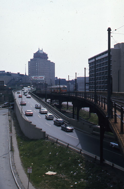 A pair of PCC streetcars in Green Line service head outbound over the Causeway Elevated towards Lechmere, next to a ramp leading to the Central Artery. This train likely originated at Boston College.